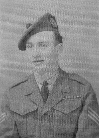 Wilford Kirk during World War II